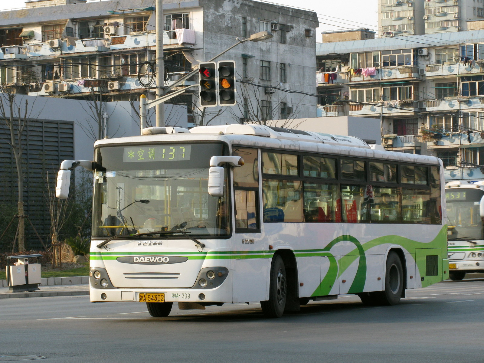 上海 137路巴士 Shanghai Bus Route 137